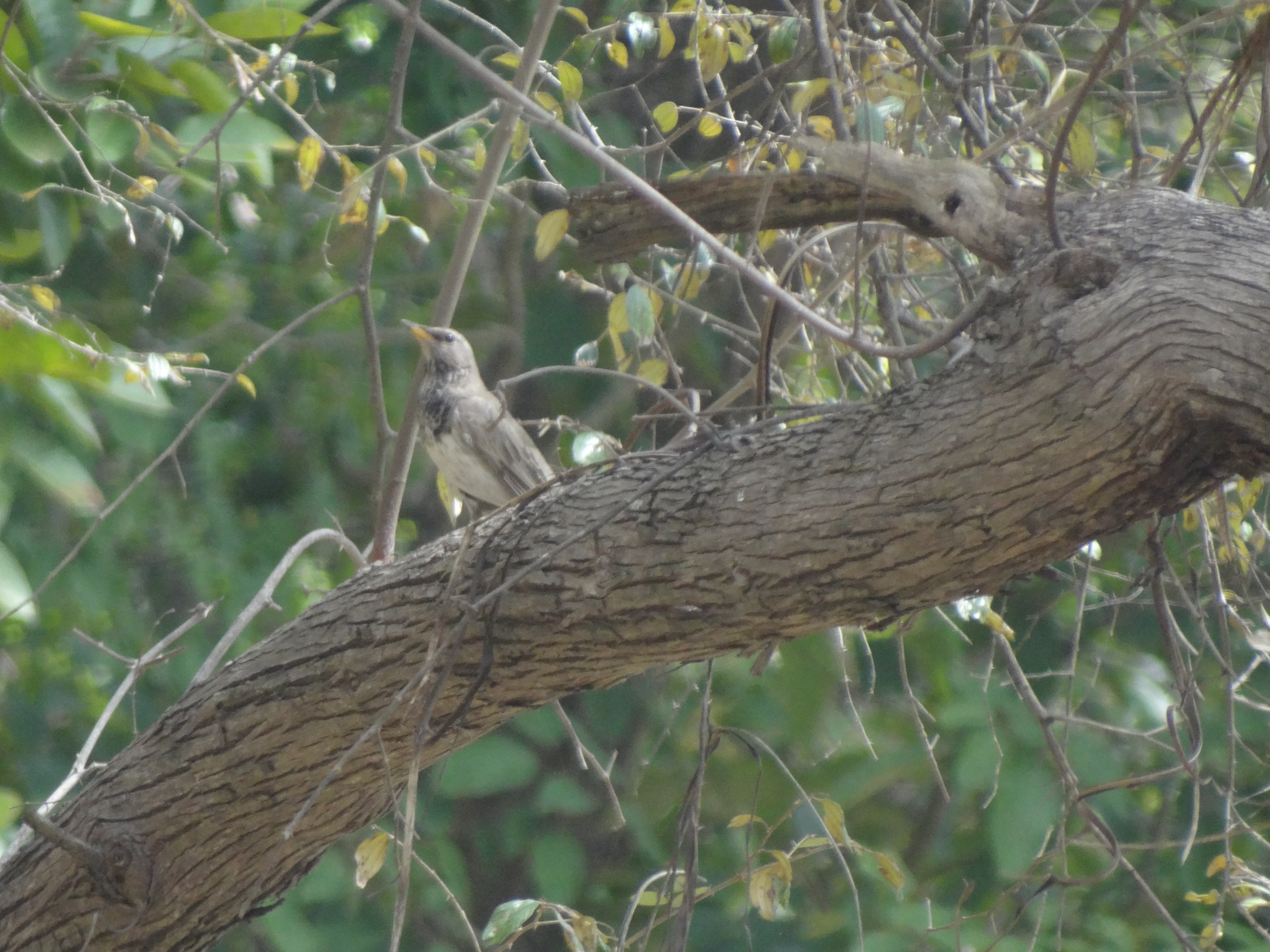 Black-throated Thrush - Turdus atrogularis